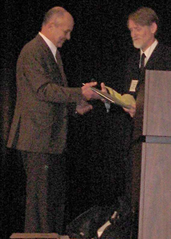 Eugene Fama receiving the inaugural Morgan Stanley-American Finance Association Award from Rick Green